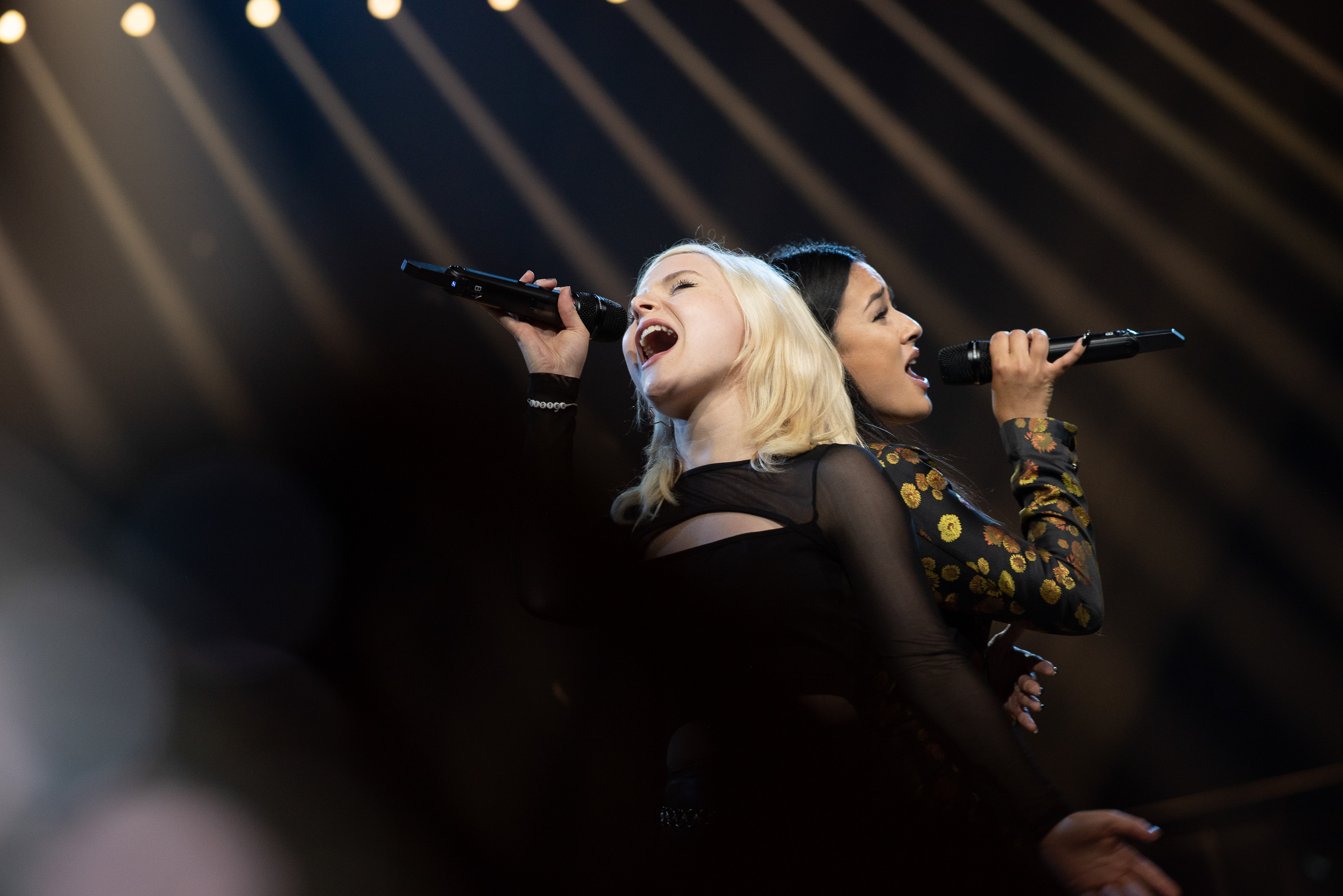 At the 2019 Eurovision Song Contest Grand Final Dress Rehearsal. S!sters (Sisters, German duo, Laurita Spinelli & Carlotta Truman.